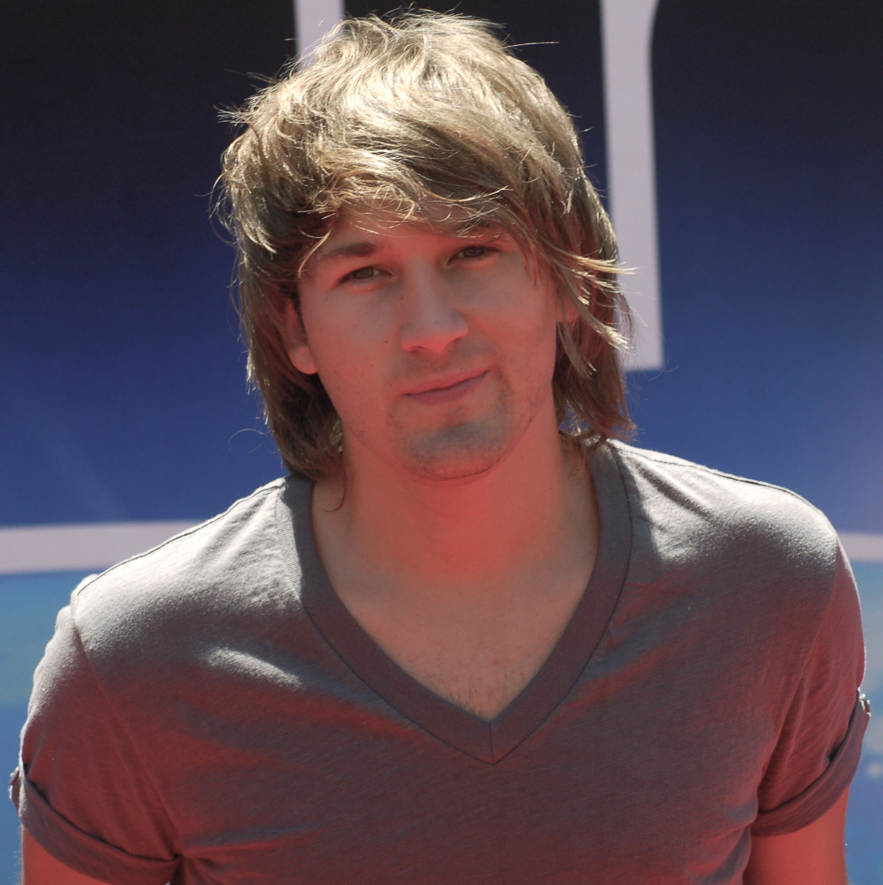 Steve Rushton at the premiere for Earth